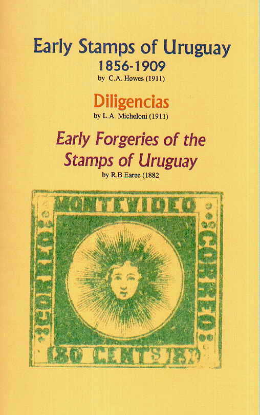 Cover of the book of three collected philatelic research articles: EARLY STAMPS OF URUGUAY by C.A. Howes, 1911; DILIGENCIAS by L.A. Micheloni, 1911; EARLY FORGERIES OF THE STAMPS OF URUGUAY by R.B. Earee, 1882 Stamp depicted: 1856 'Diligencia' stamp of Uruguay, 80 centésimos green